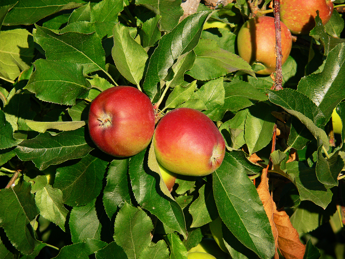 Pair of Gala apples that have not reached full size yet, and leaves